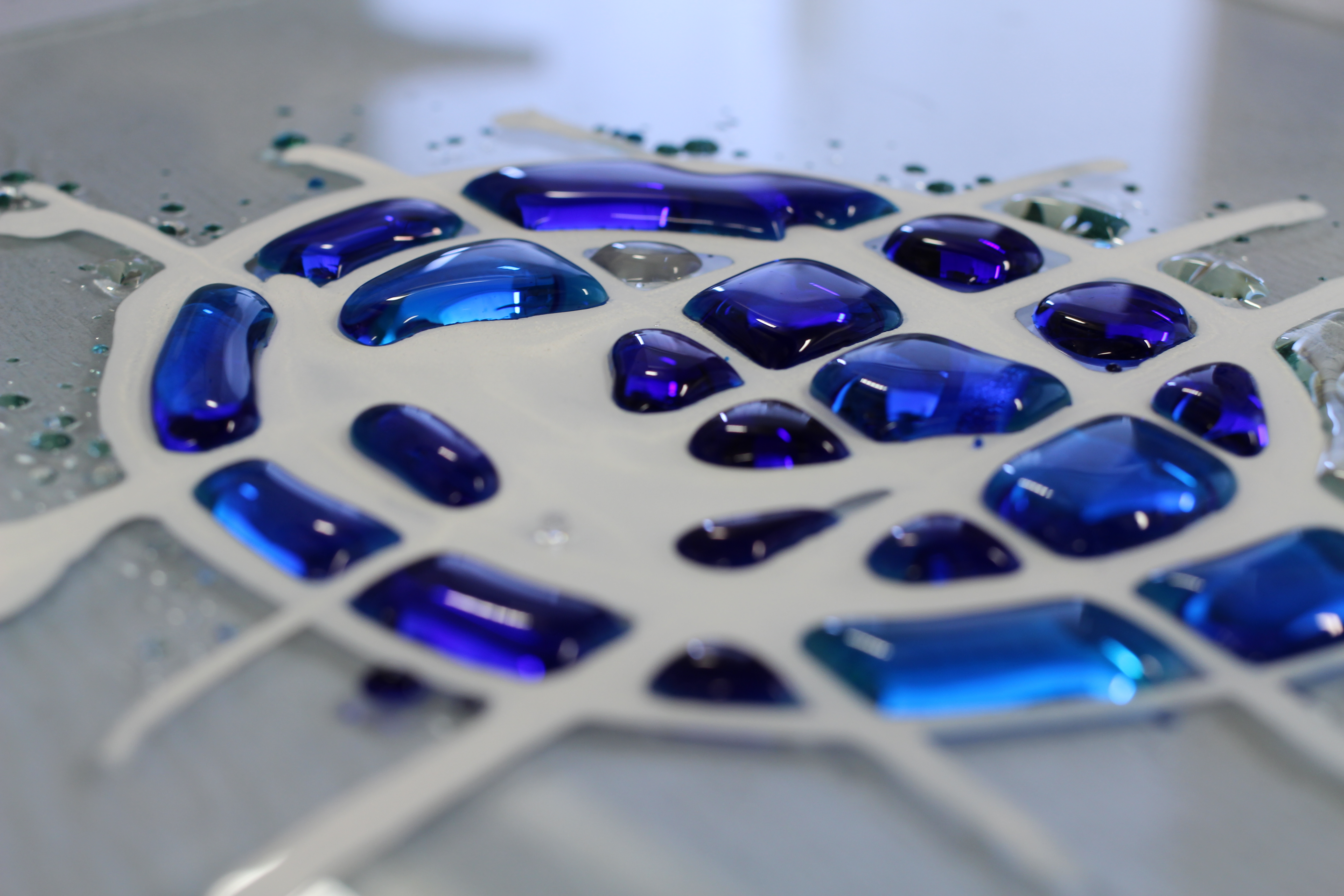 A super-hydrophobic paint developed by scientists in UCL Chemistry could have great promise for commercial self-cleaning coatings. It can be applied to many surfaces (in this case, glass), and forms a tough surface that resists abrasion, and repels water extremely effectively. As the water forms a bead and rolls off the surface, it dislodges any dust, dirt, bacteria or viruses that are present. Here, a pattern has been drawn on the glass using the coating, and water is repelled from the painted areas and is restricted to the untreated areas.